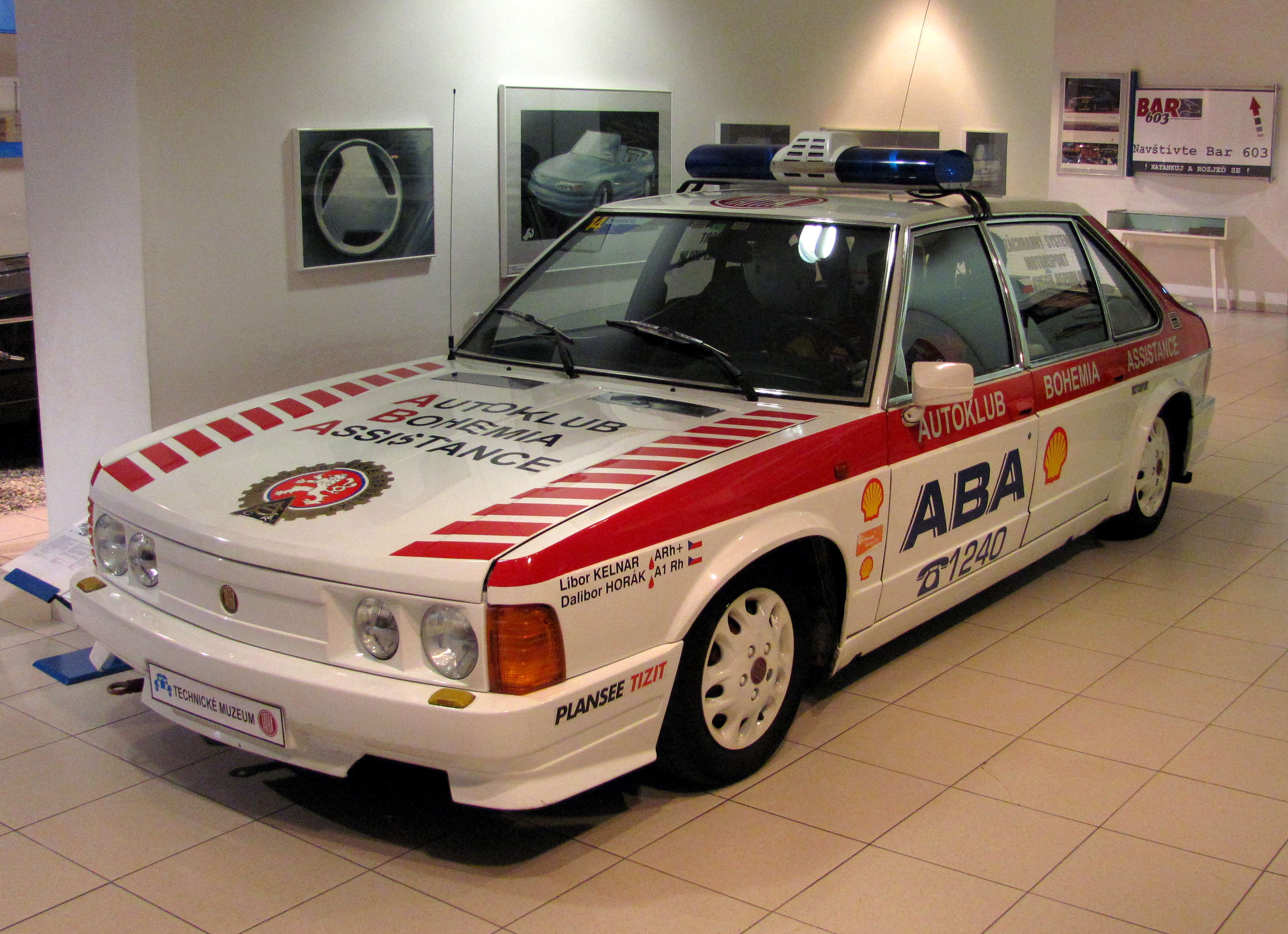 Tatra 613 Autoklub Bohemia Assistance (Safety car)